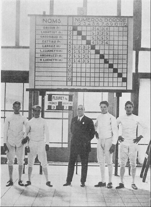 Foils team of Argentina at the 1928 Olympic Games